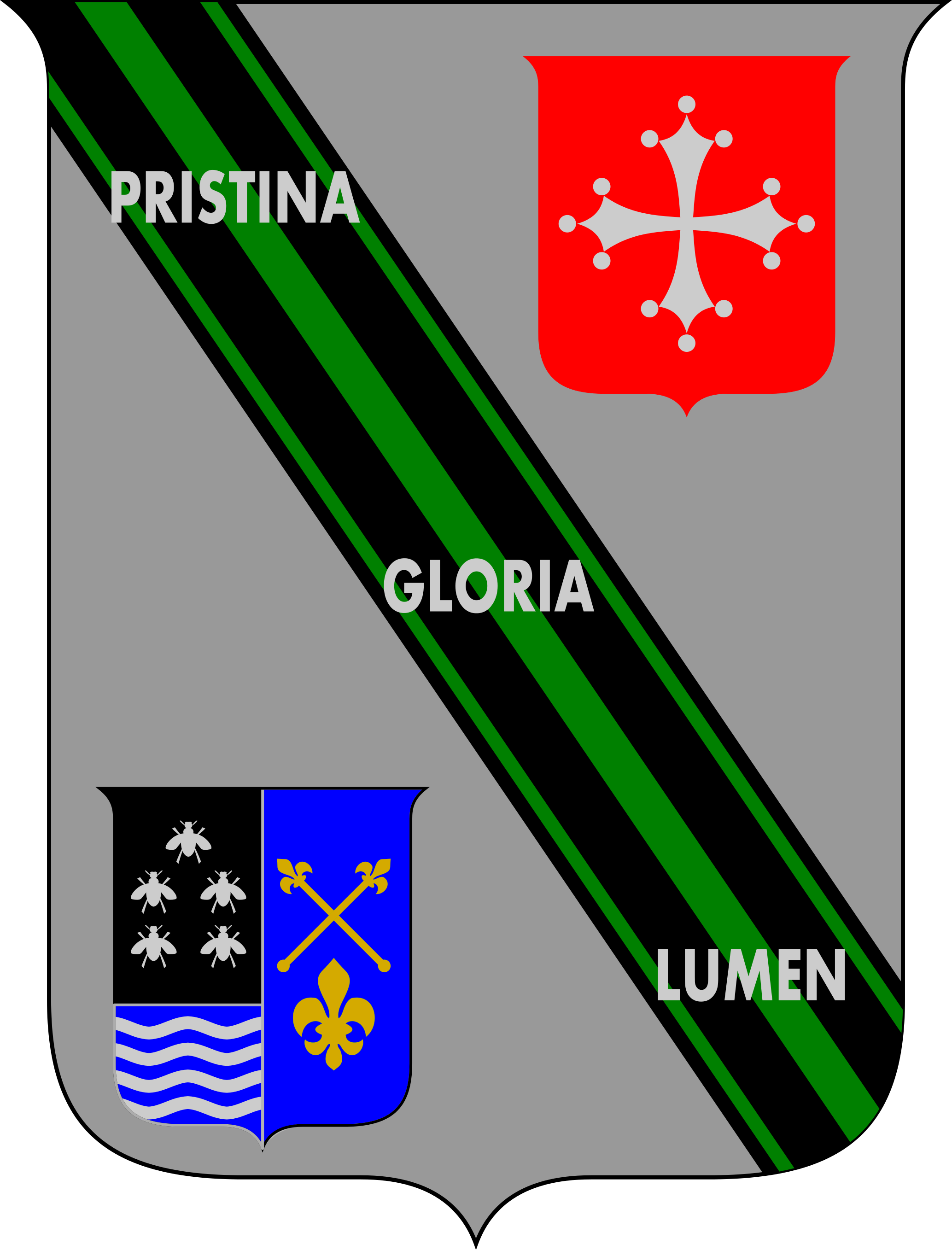 Coat of Arms of the 29th Infantry Regiment "Assietta", Royal Italian Army, 1939